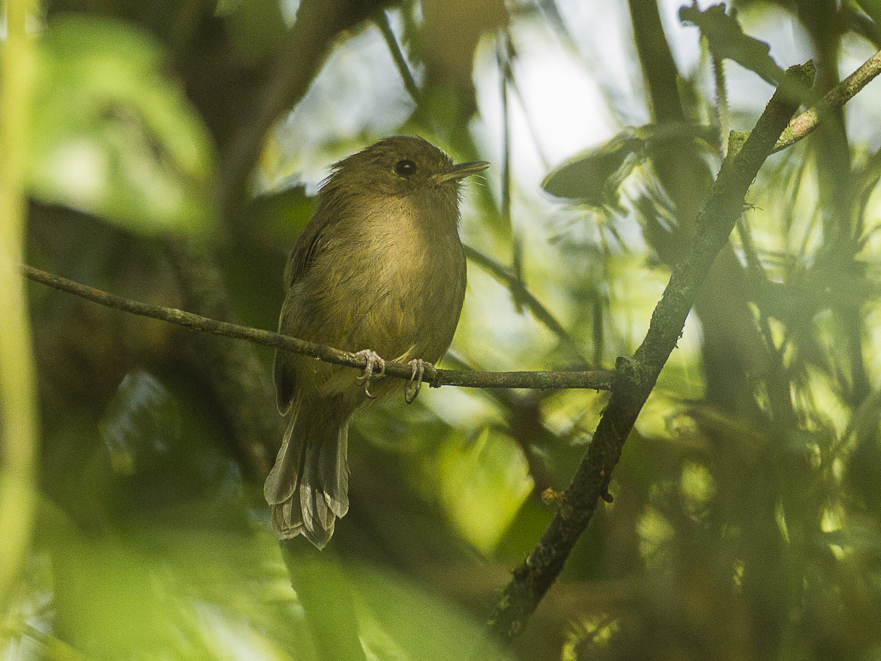 Brown-breasted Bamboo Tyrant Hemitriccus obsoletus, Intervales, Brazil S4E9913